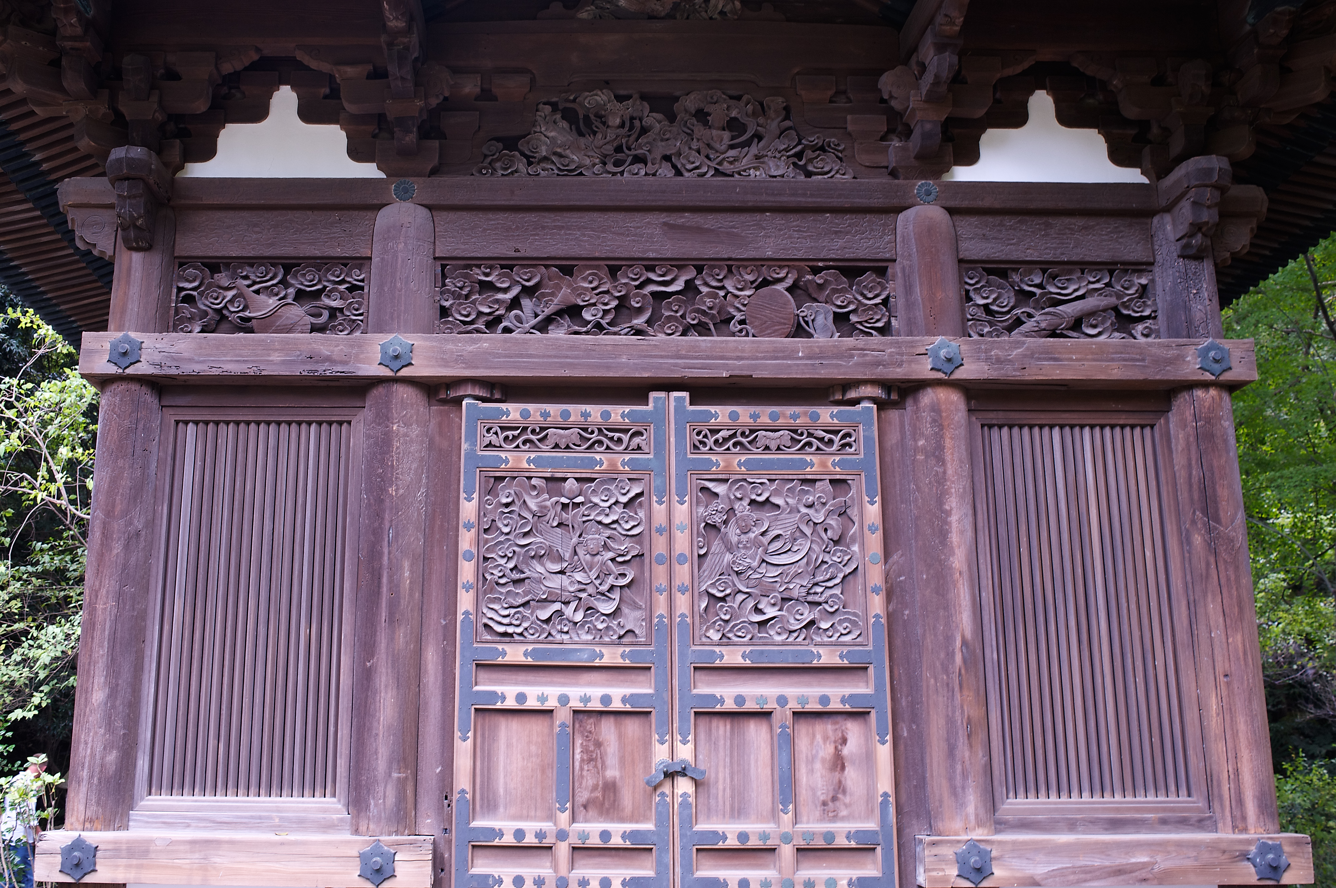 Tenzuiji's former Jutō Ōidō at the Sankei-en garden in Yokohama